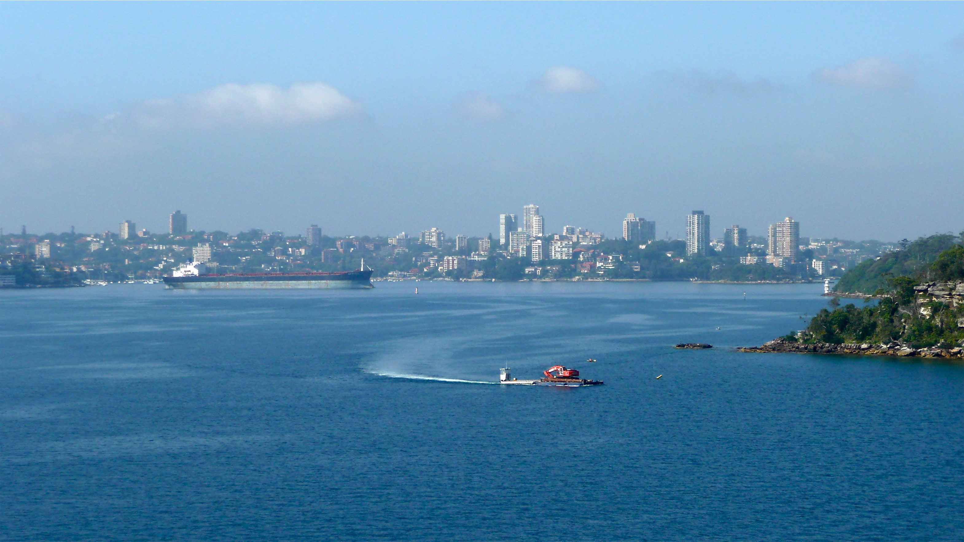 The Eastern Suburbs